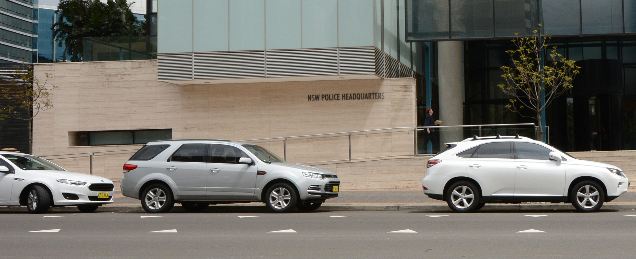 Police Headquarters, Parramatta, Sydney